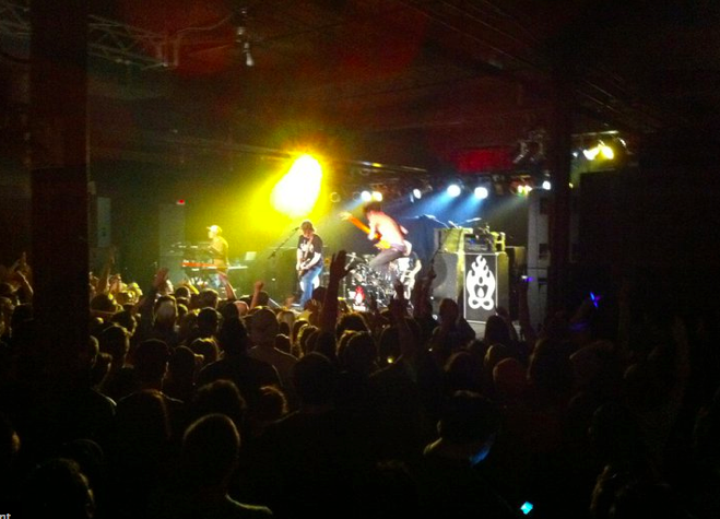 Passafire on stage at The Masquerade in Atlanta, GA